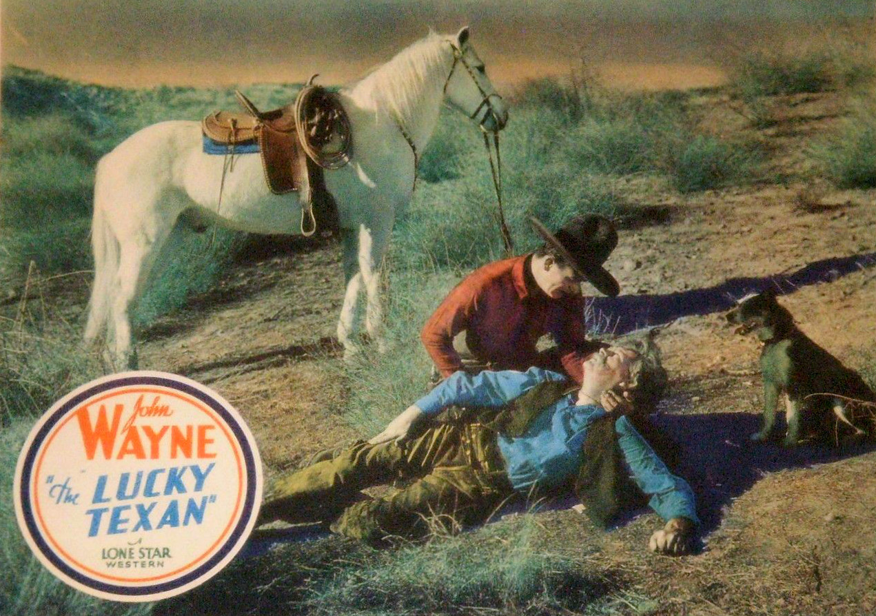 Lobby card for the 1934 film The Lucky Texan. The item has no copyright markings on it as can be seen in the links above and the uncropped copy. At bottom left is Country of origin USA.